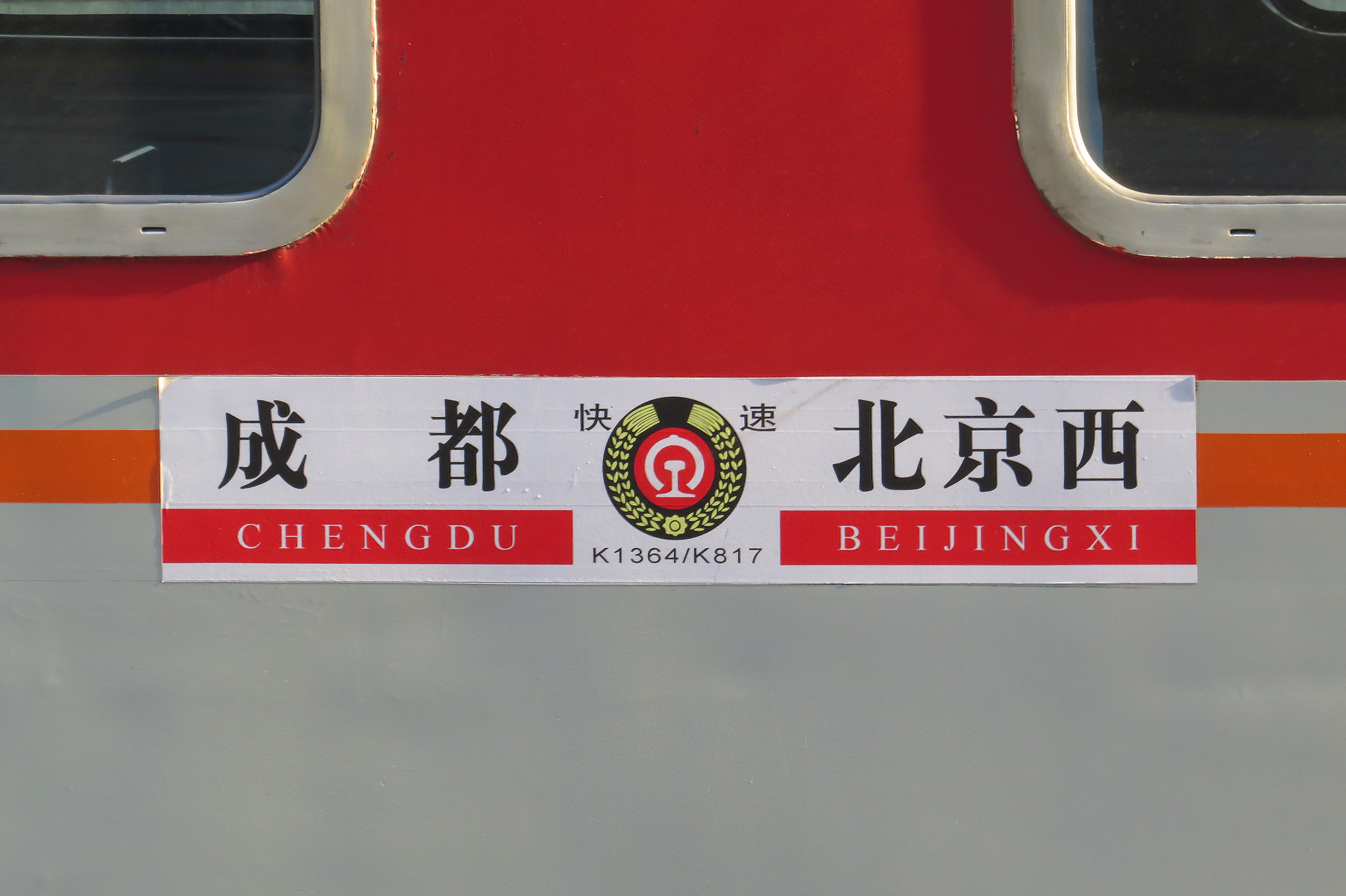 Forgot this one. Interesting sequence: K1364-817 in one group, while K1363-818 in another group.